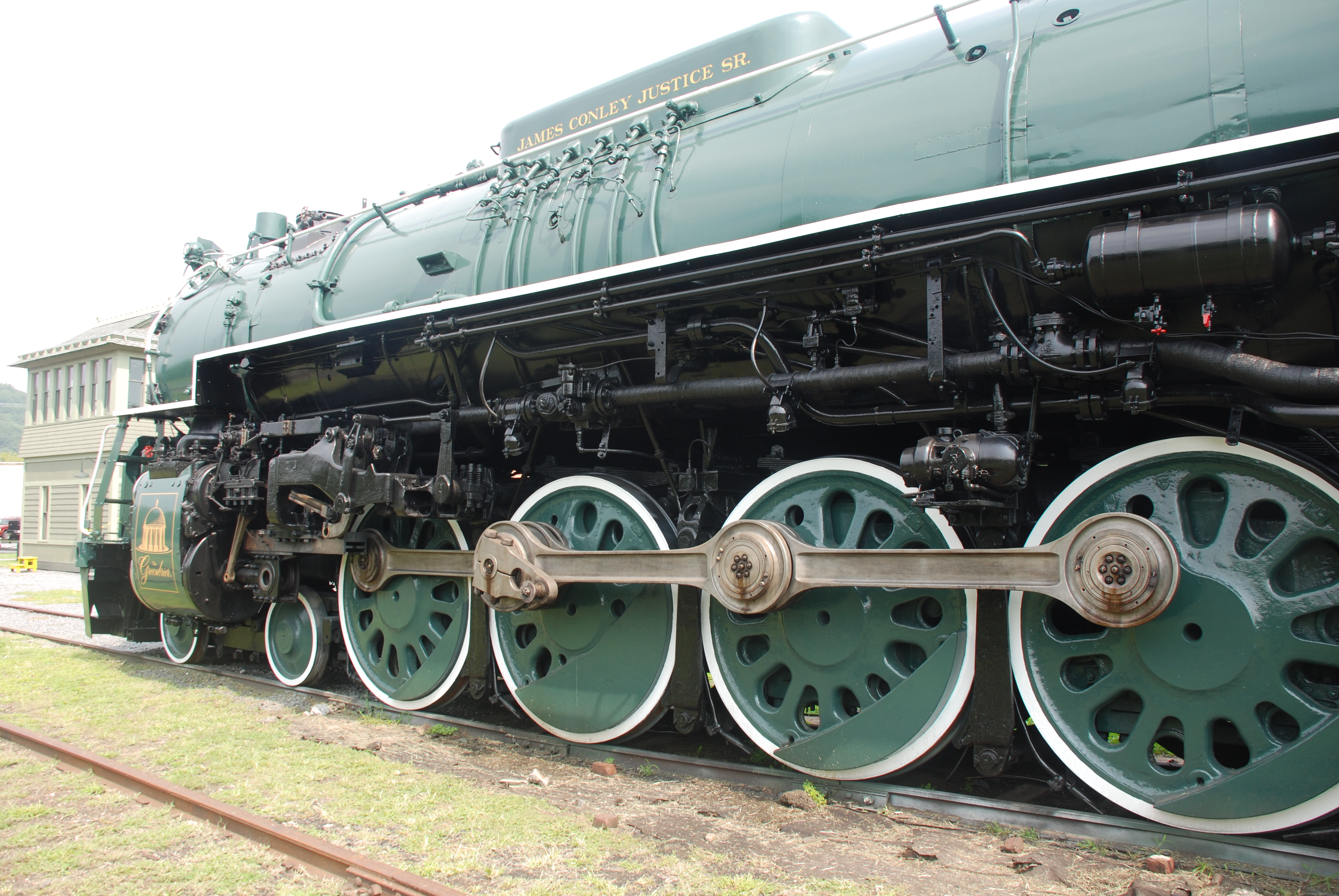 Chesapeake & Ohio 614 4-8-4 steam locomotive at C&O Railway Heritage Center in Clifton Forge, Virginia.